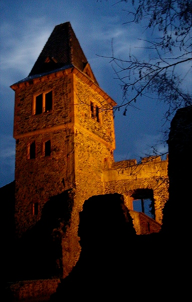 Habitation Tower of Burg Frankenstein